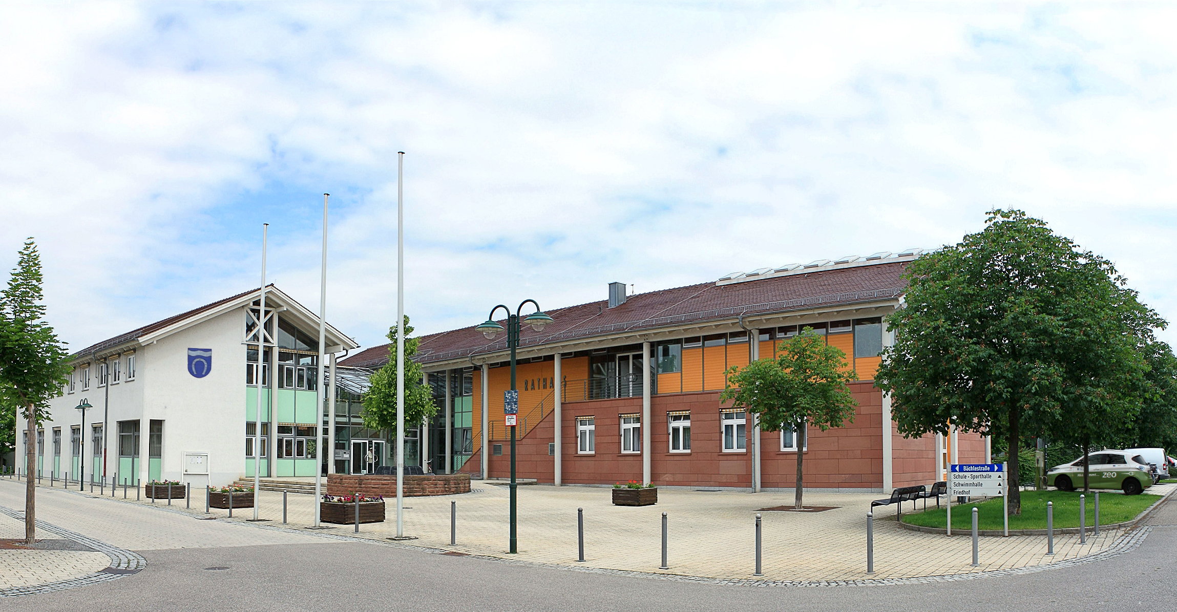 City hall (Rathaus) of Dettenheim